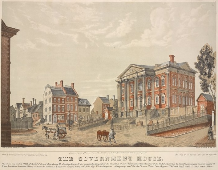 Image Title: The Government House / from the original drawing by W. J. Condit ; from the original drawing in the possession of N. Campbell, Esq. ; printed in colours by Wm. Ells. ; lith. & pub. by H. R. Robinson ; entered . . .1847 ; C. Milbourne, delin. et excud., 1797. Creator(s): Ellis, William H., engraver -- Engraver Condit, W. J., fl. 1847 -- Artist Robinson, Henry R., d. 1850 -- Publisher Additional Name(s): Eno, Amos F., 1836-1915 -- Collector Milbourne, Cotton, fl. 1790-1840 -- Engraver Published Date: 1847 Created Date: 1797 Depicted Date: 1797